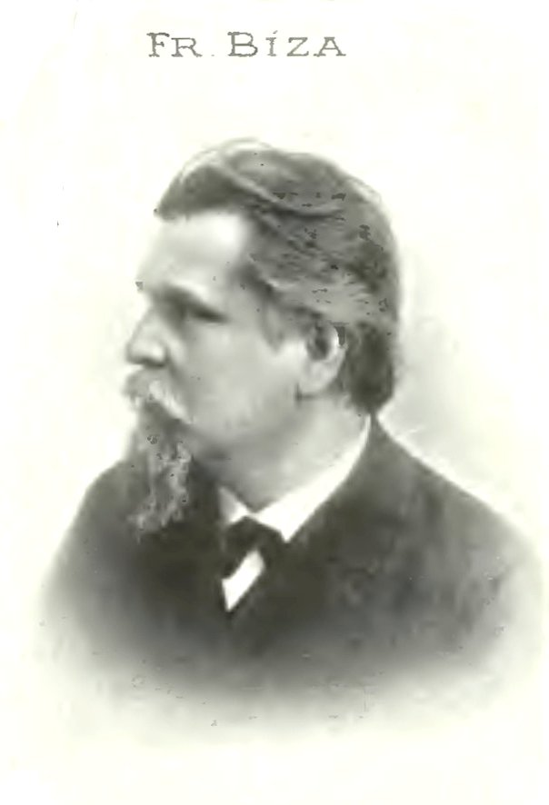 Portrait of František Bíza (1849-1904), Czech illustrator.